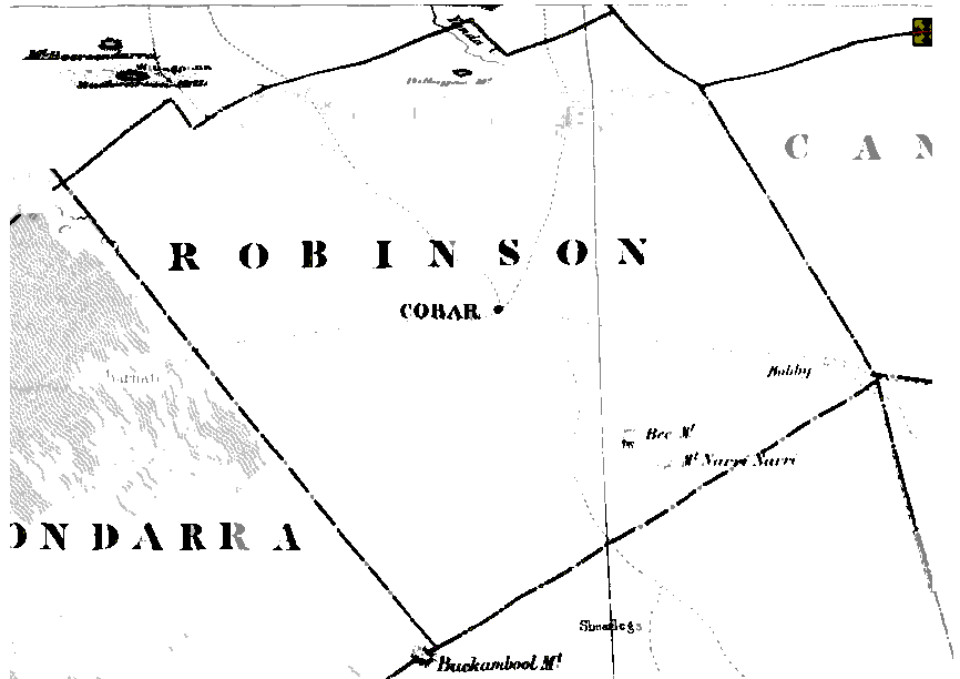 Black and white map of Robinson County (New South wales) in 1886 by John Sands.